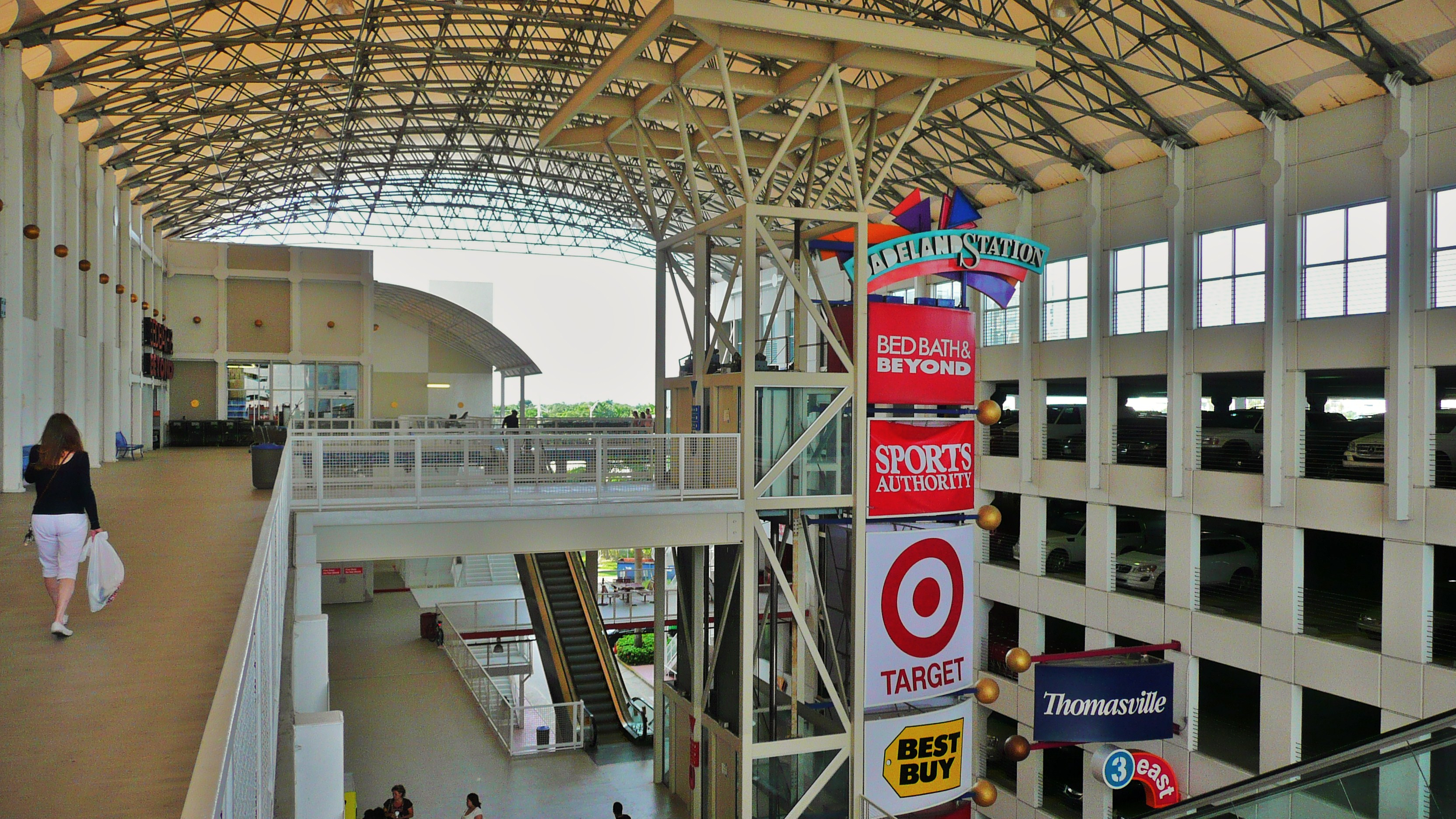 Digital photo taken by Marc Averette. Dadeland Station in Glenvar Heights, Florida, United States.